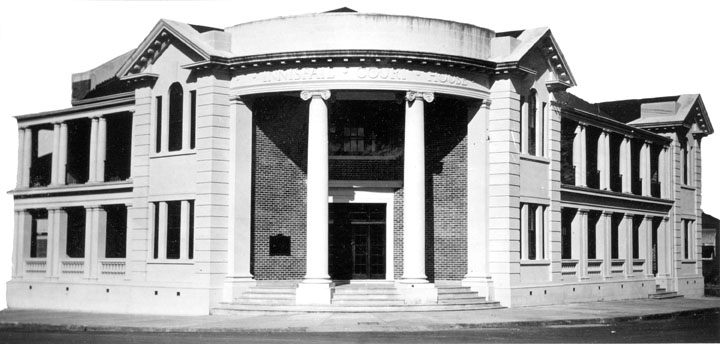 Innisfail Court House, view looking west.